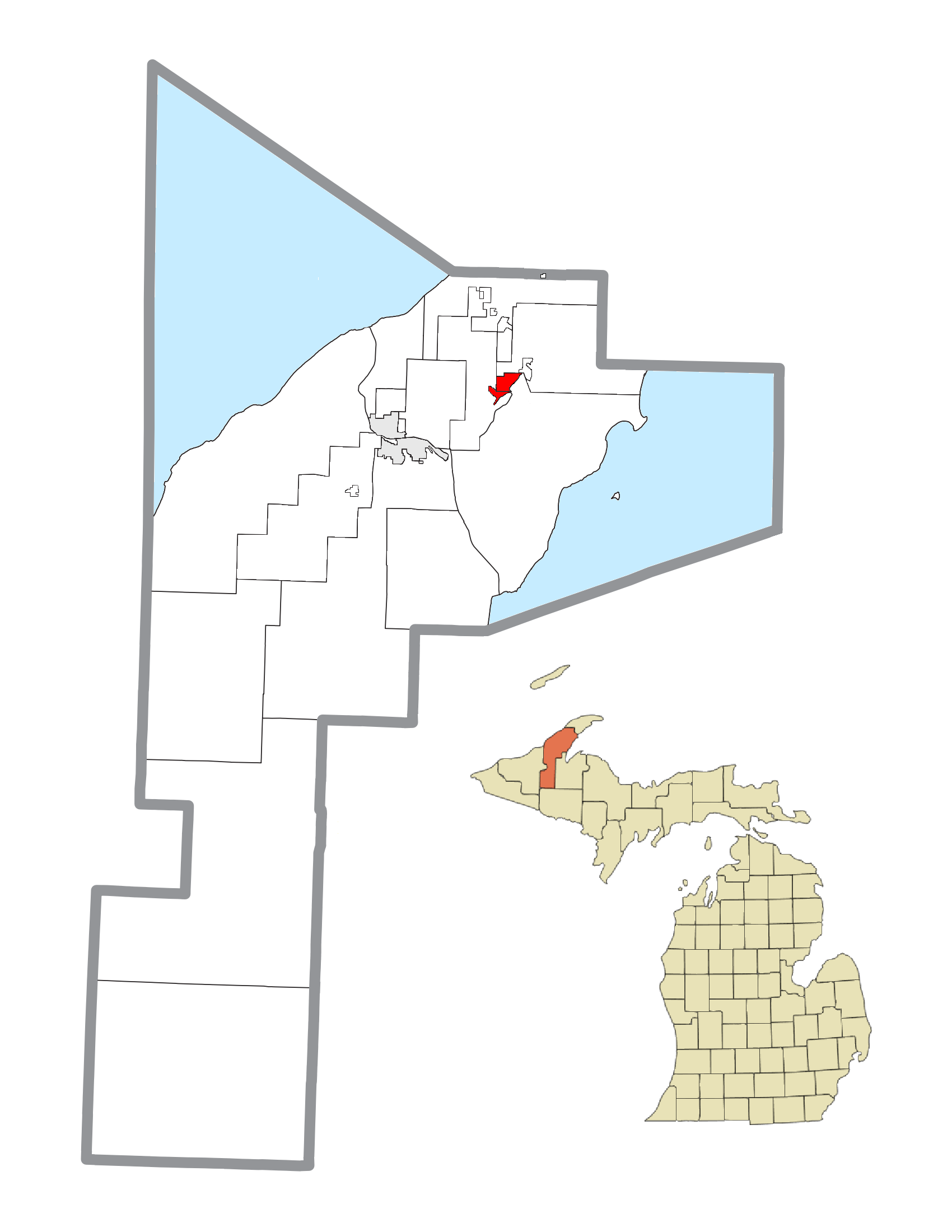 Hubbell, MI